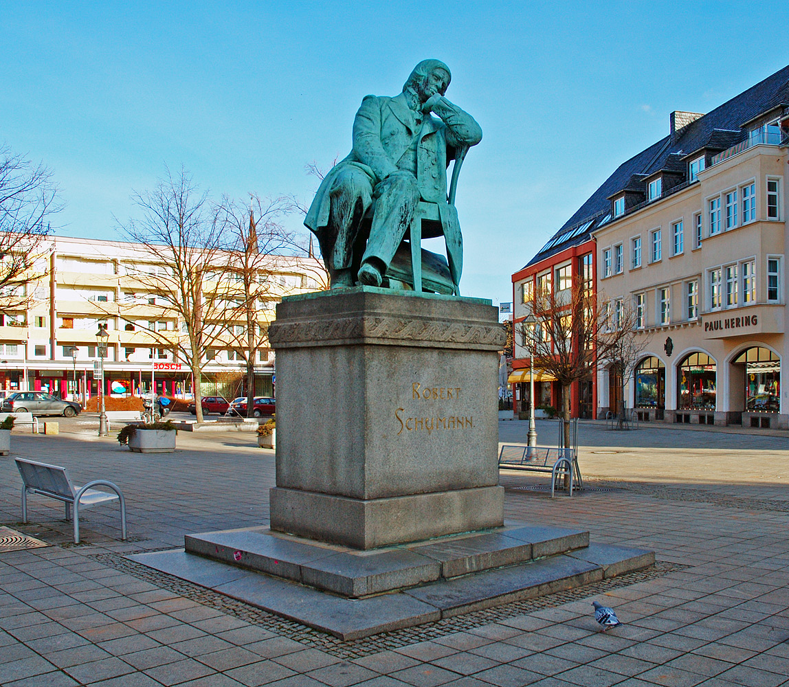 This image shows the Robert Schumann statue in his birth town Zwickau (Saxony, Germany).